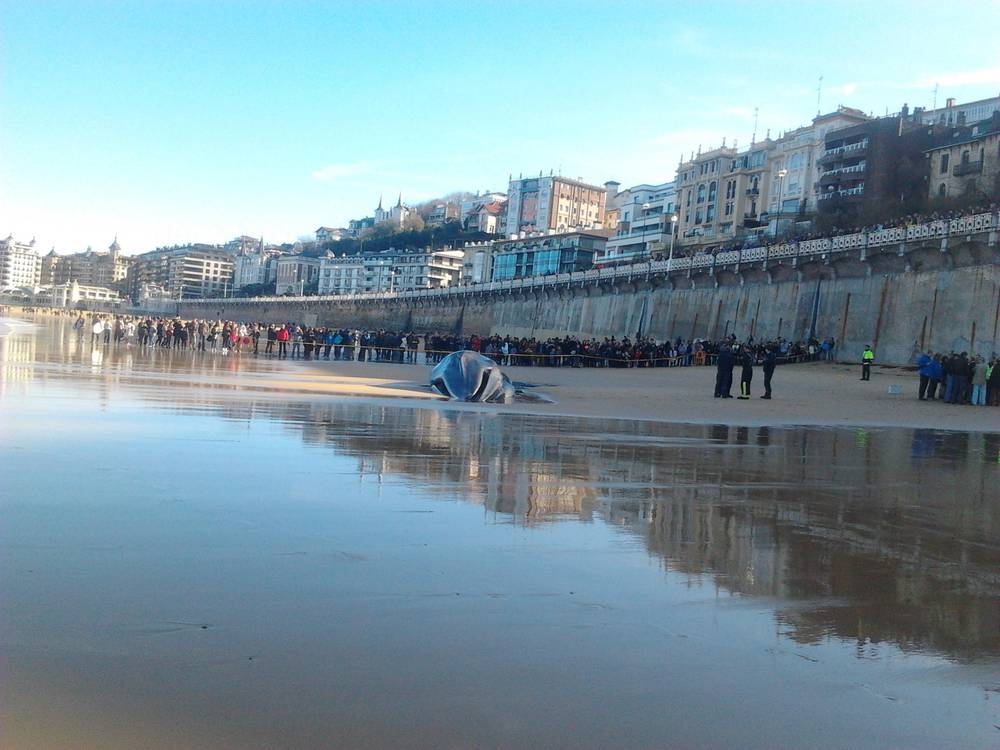 Fin whale beached in Kontxa beach, Donostia, the Basque Country.